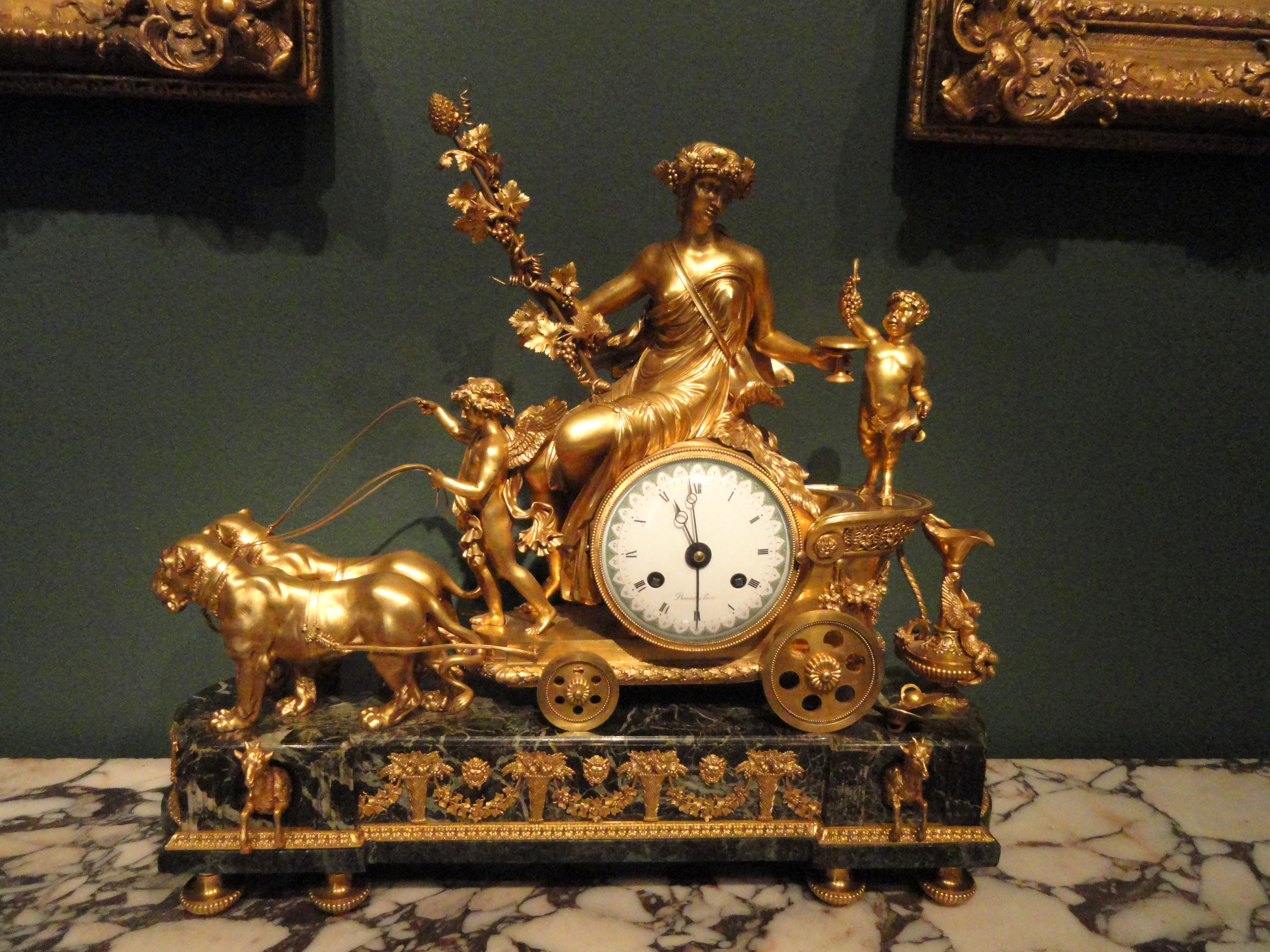 Exhibit in the Corcoran Gallery of Art, Washington, D.C., USA. There were no prohibitions against photography in the museum. Artwork is in the public domain because the artist died more than 70 years ago. The chariot is ridden by a Bacchante. Ormolu bronze and green marble base. France, Consulate period.